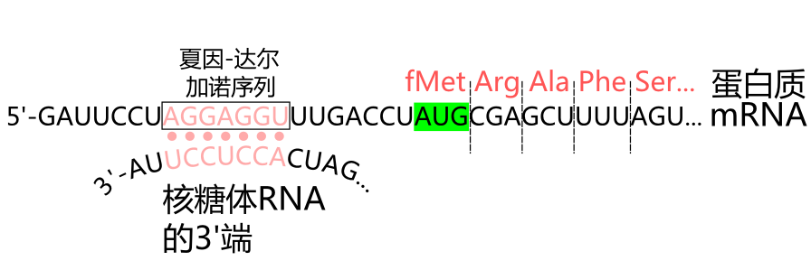 Shine-Dalgarno sequence